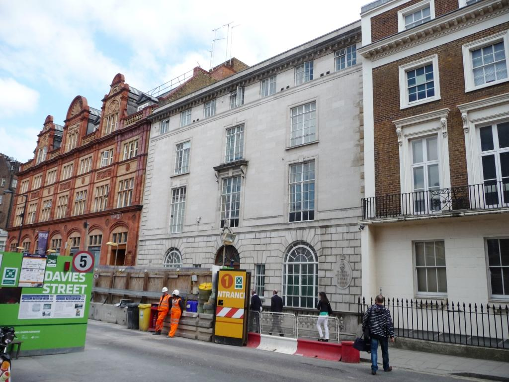 Former Drill Hall, 56 Davies Street, Westminster